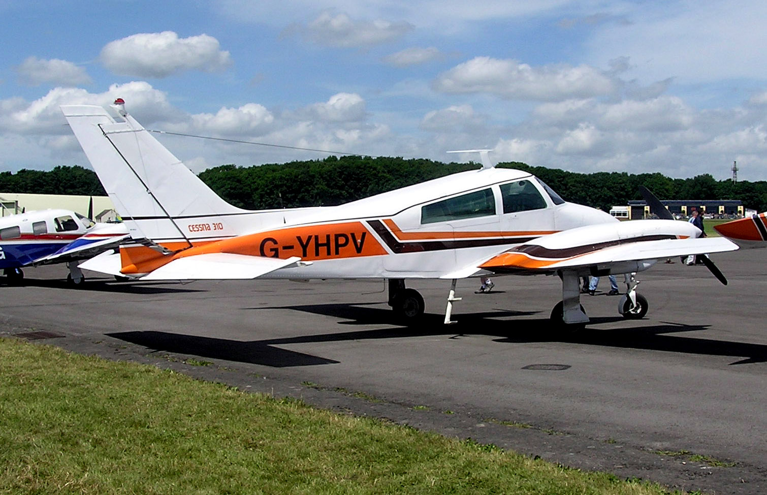 Cessna 310N (UK registration G-YHPV, year of build 1968) at Kemble Airfield, Gloucestershire, England. Photographed by Adrian Pingstone in July 2005 and released to the public domain.